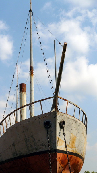 Piraveve ship, in Vapor cue